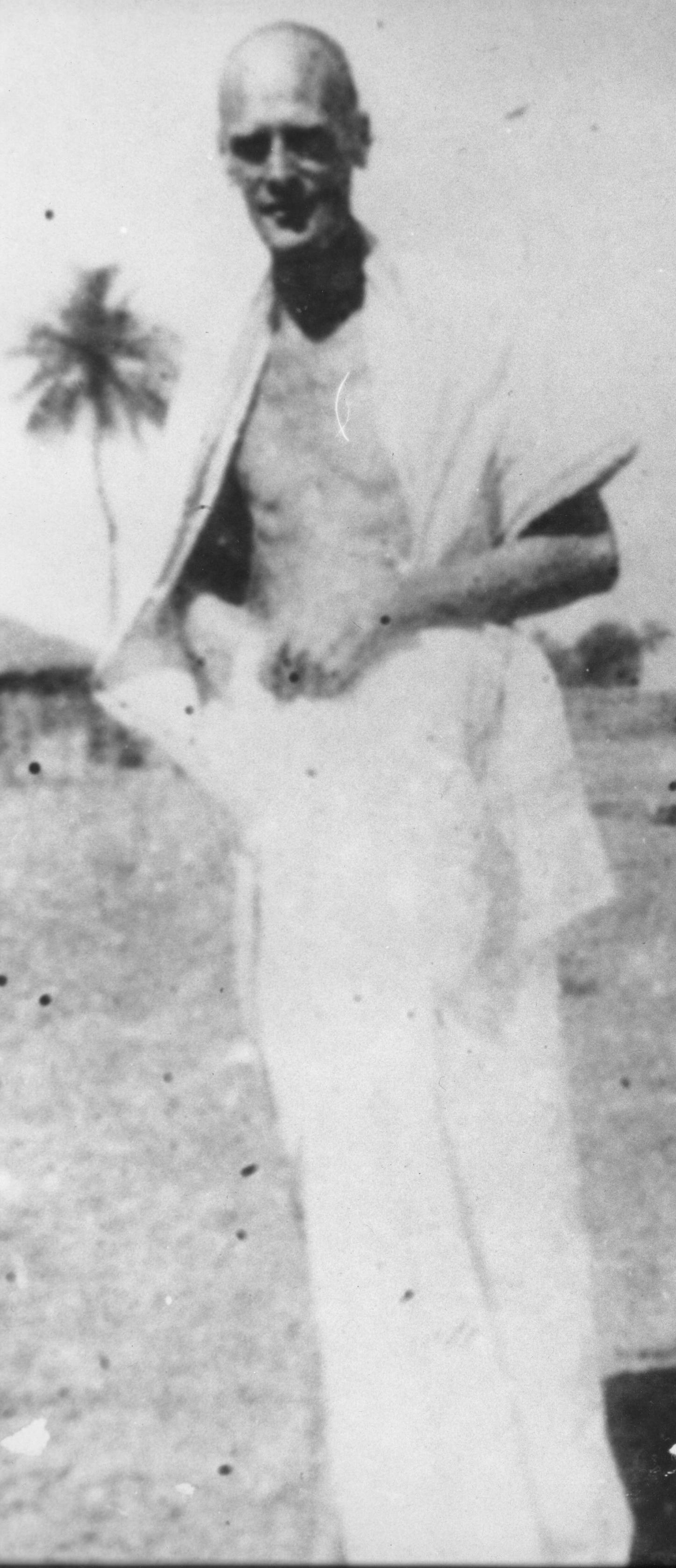 Lanza del Vasto in Palestine, 1938.